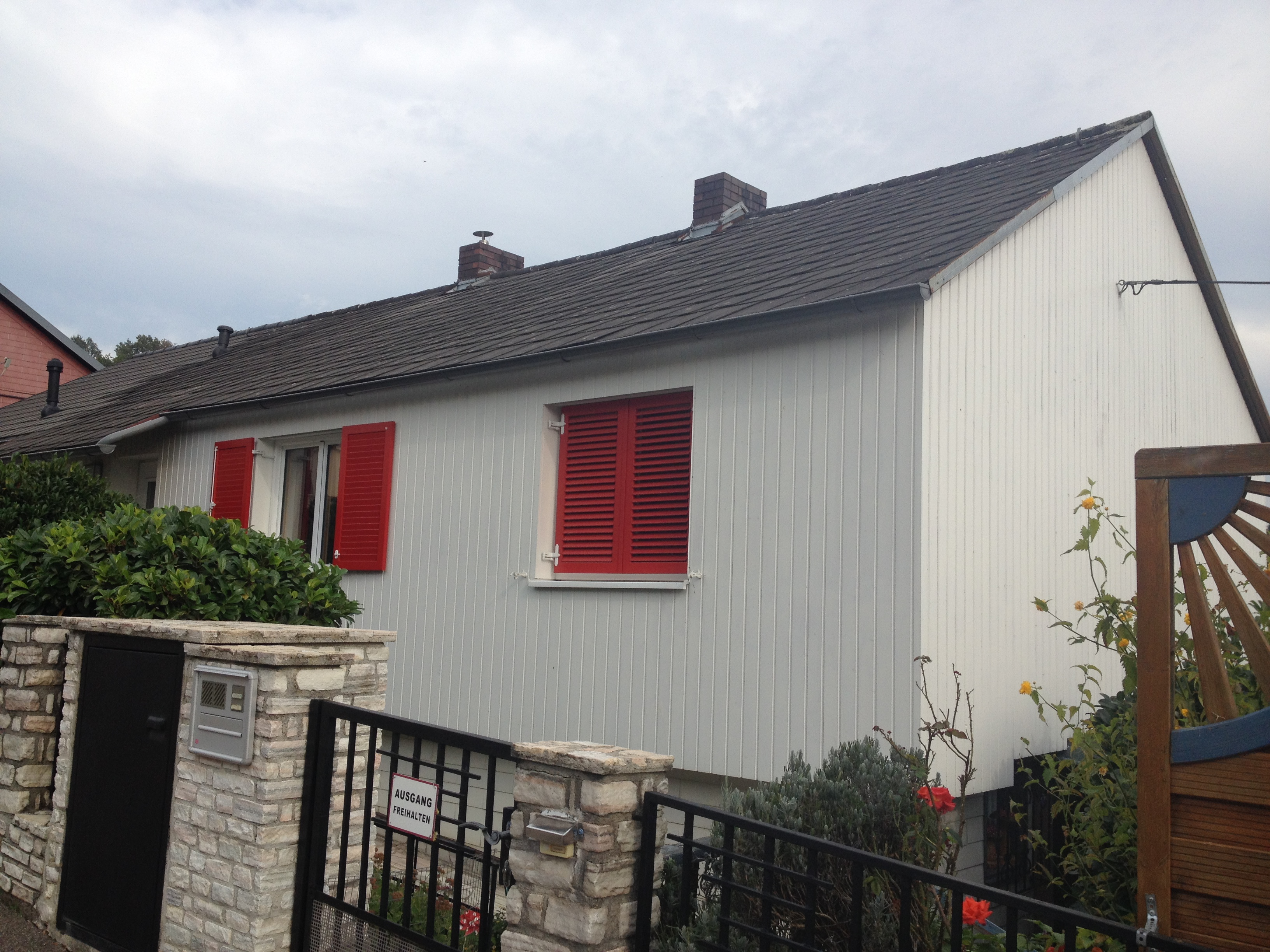 white house in Uppsalaweg